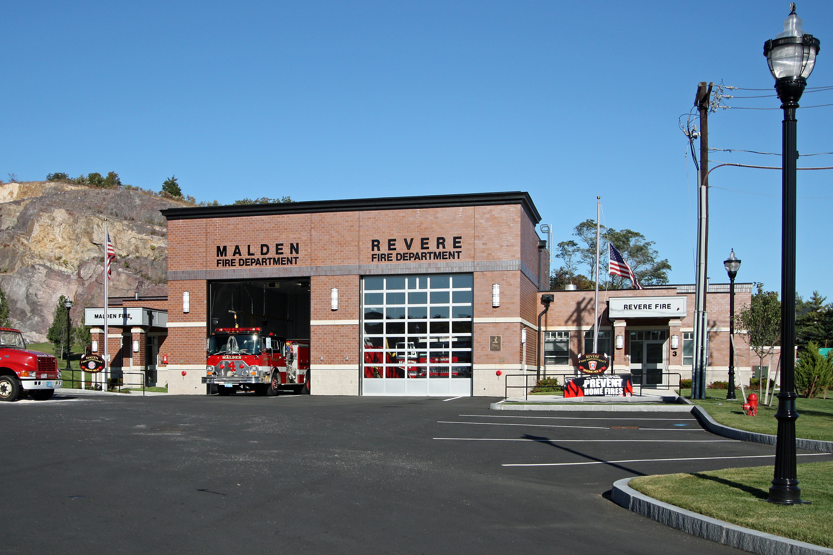 Dual fire stations serve the cities of Revere/Malden, Massachusetts USA.